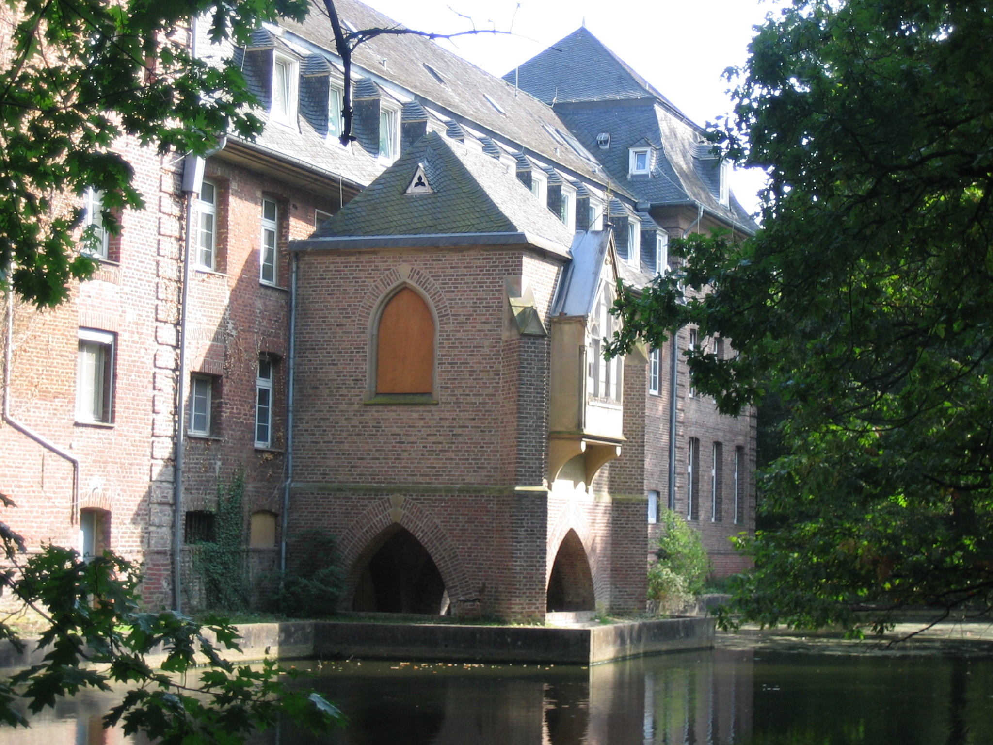 On the picture you can see the backside on Schloss Dilborn. The picture was taken on 23rd September 2006 by Oliver Thelen [Ollithelen]